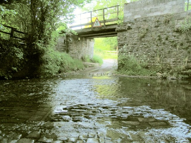 Ford and Rail Bridge near Meusydd. The river Cennen has its fair share of fords. This one is on a road so awkward and narrow it's easy to see why there isn't a better crossing. The railway is the Heart of Wales line between Llandybie and Llandeilo.